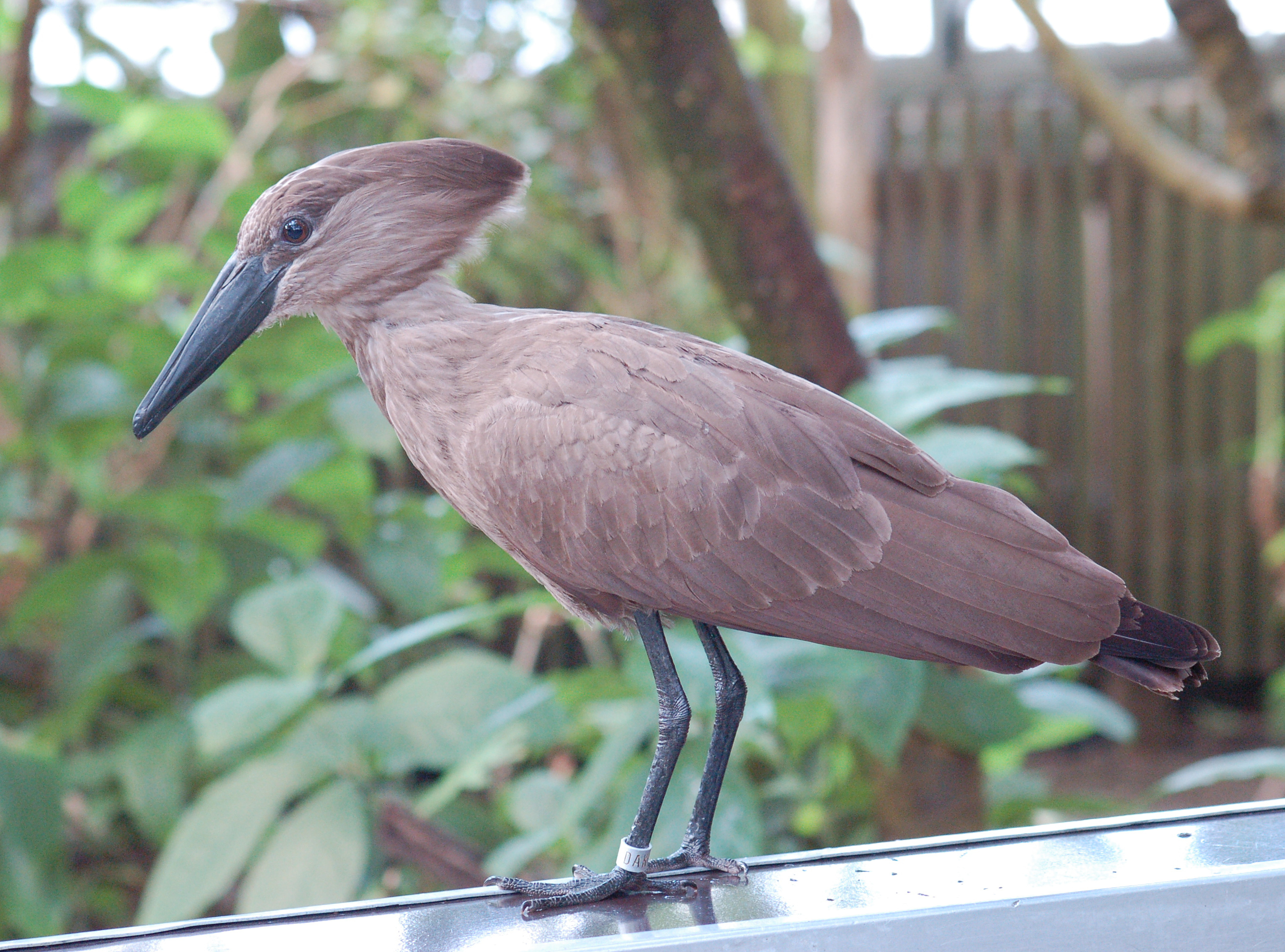 A photograph of Hammerkopen (Scopus umbretta en ). Photo taken at the National Aviary. Time Frame 1 Time Frame 2 Time Frame 3